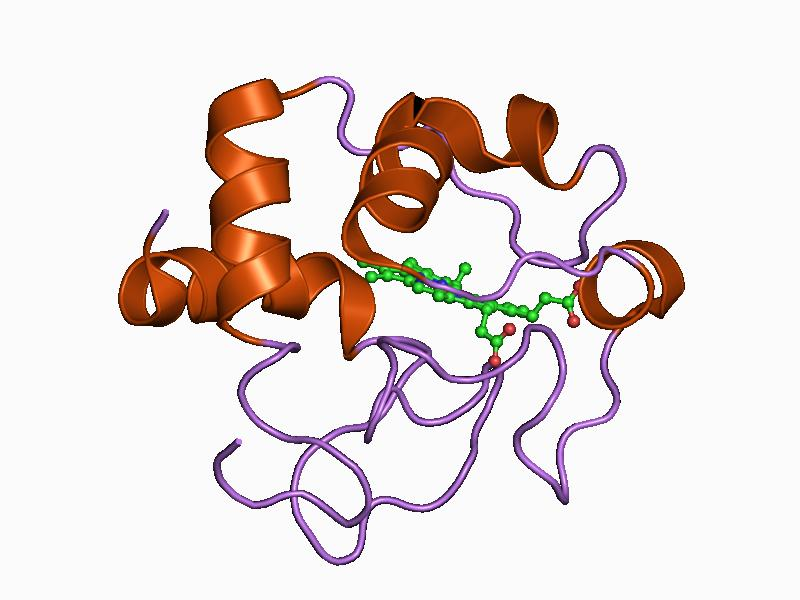 Cartoon representation of the molecular structure of protein registered with 1cry code.